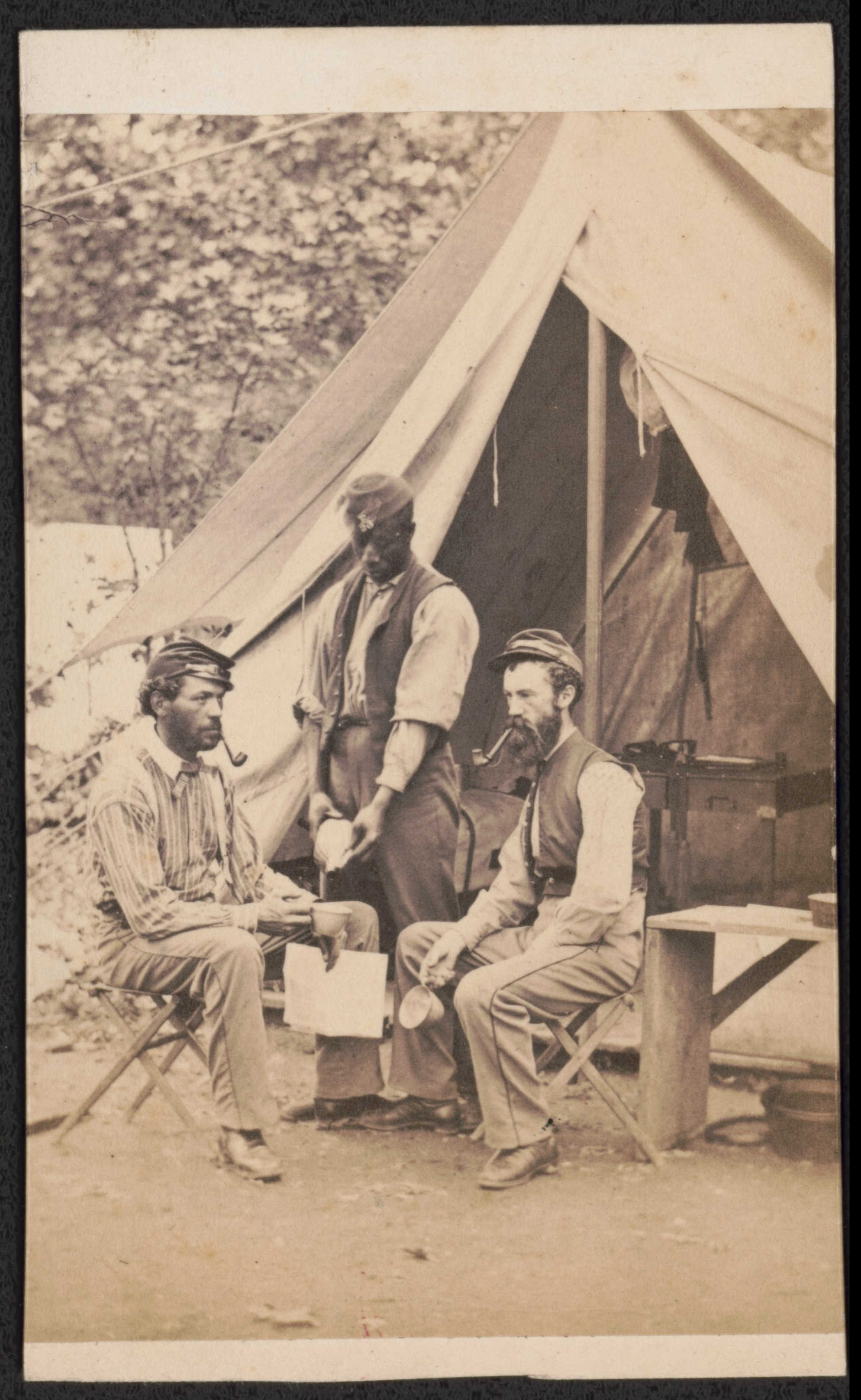 Title: Captain William W. Dingeldy of Co. F, 23rd New York Infantry Regiment and his servant with Sergeant Lucian W. Bingham of Co. K, 23rd New York Infantry Regiment in camp at Arlington, Virginia Abstract/medium: 1 photograph : albumen print on card mount ; mount 11 x 6 cm (carte de visite format)